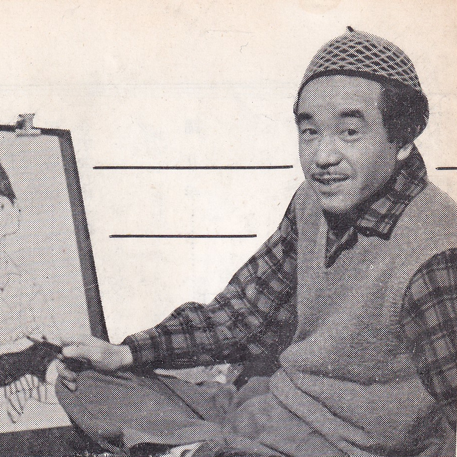 Yoshiro Kato, Comics artist from Japan. taken in 1956.